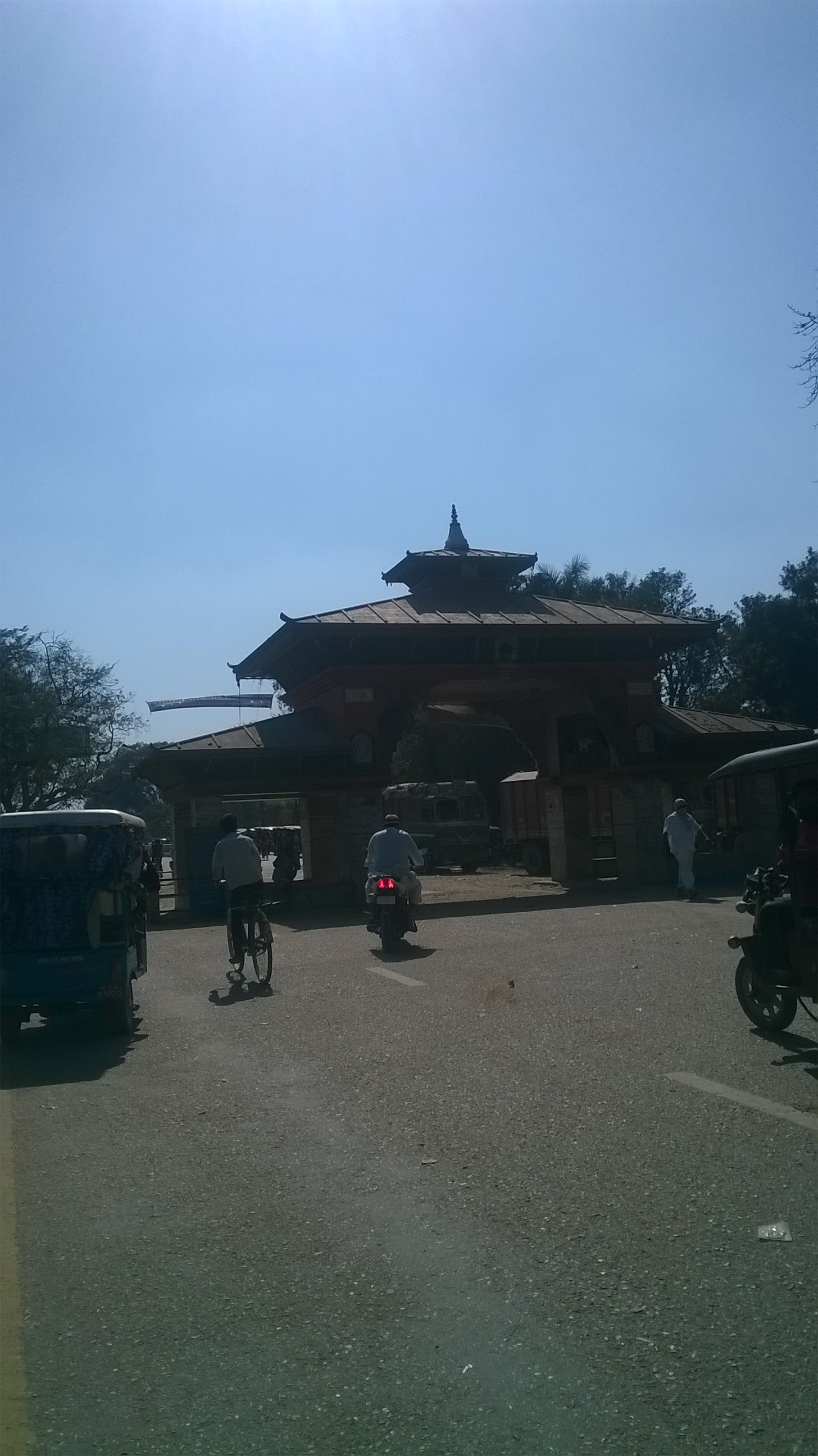 Border Gate of India/Nepal in Bahraich Uttar Pradesh